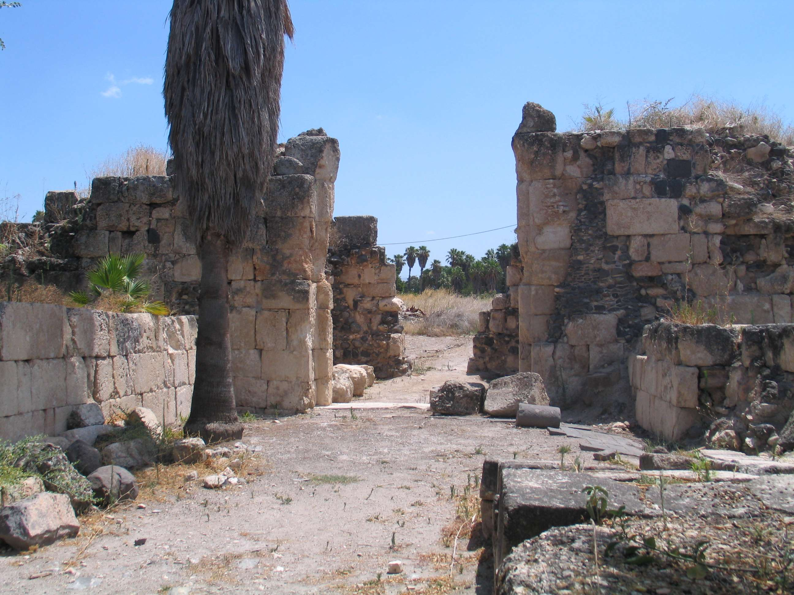 Ruins of Umayyad palace an Hurvat Minim (Khirbat al-Minya), Israel.